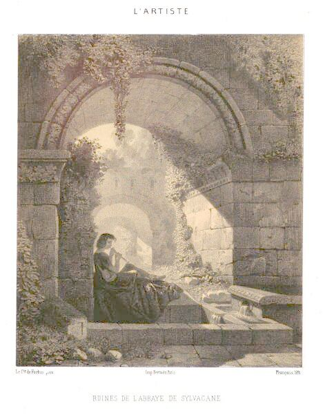 Ruins of Silvacane abbey in Southern France